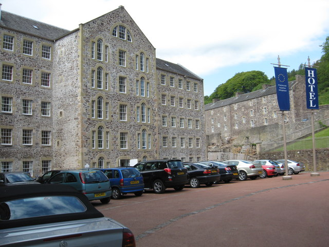 Car park at New Lanark Hotel